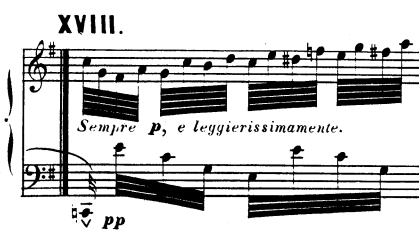 Eighteenth variation of Le festin d'Ésope, composed by by Charles-Valentin Alkan